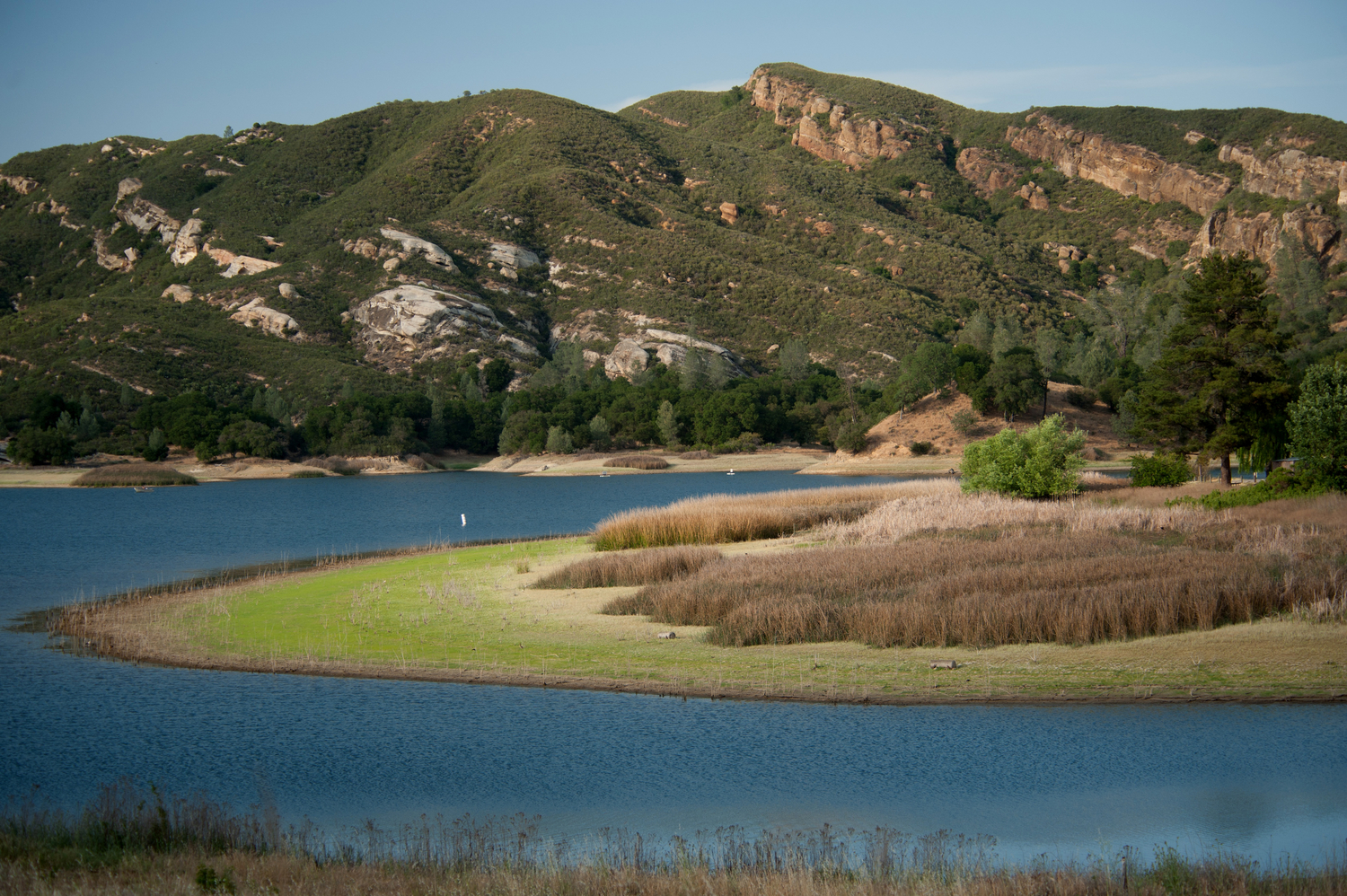 View of the Santa Margarita river in California.